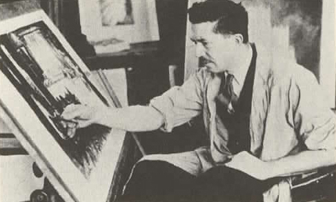 Hugh Ferriss, image courtesy of Princeton Architectural Press.